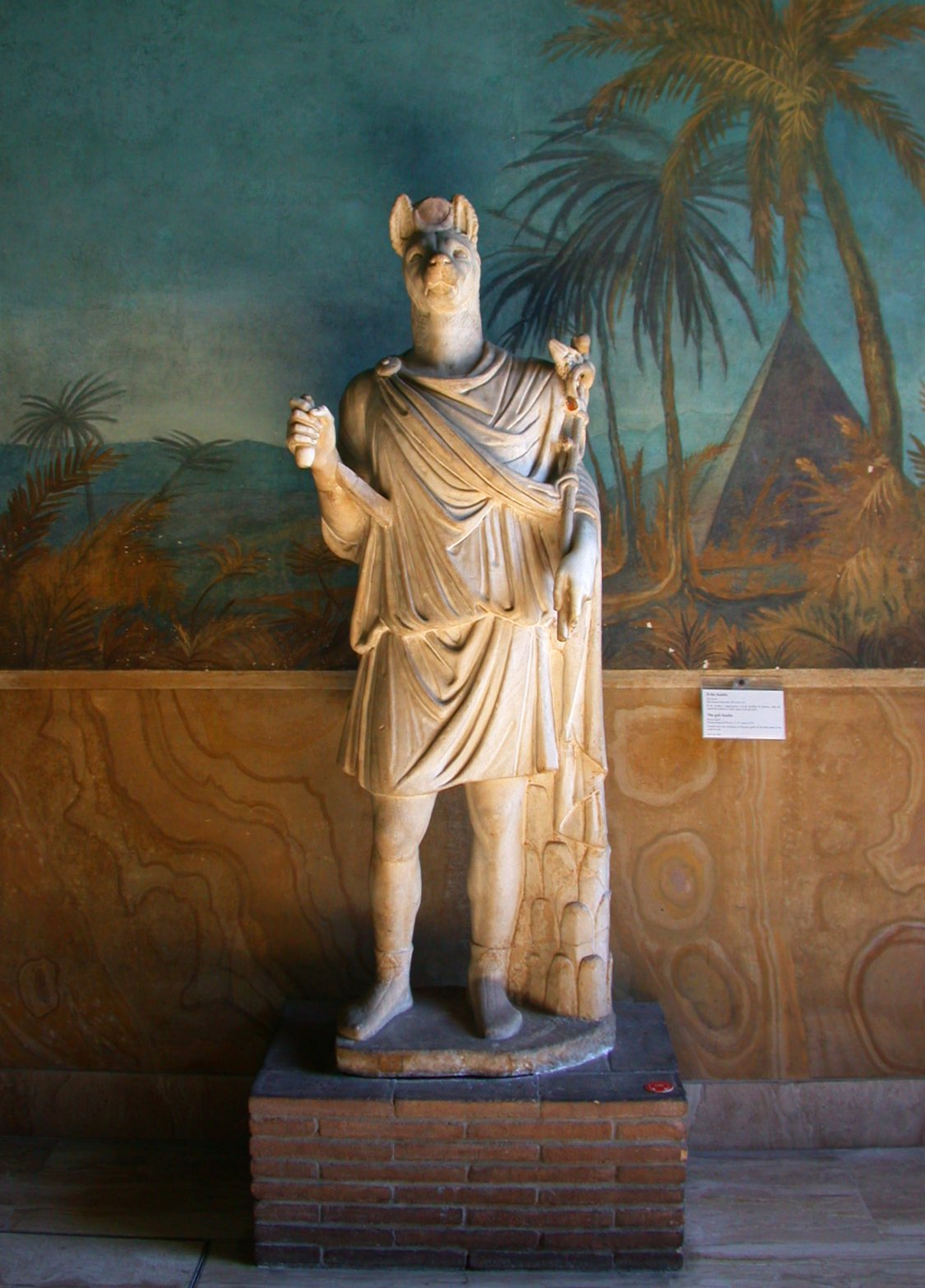 Statue of the Egyptian god Anubis (showing the attributes of the Greek god Hermes, with whom he was identified). In the Vatican Museums, Vatican City.